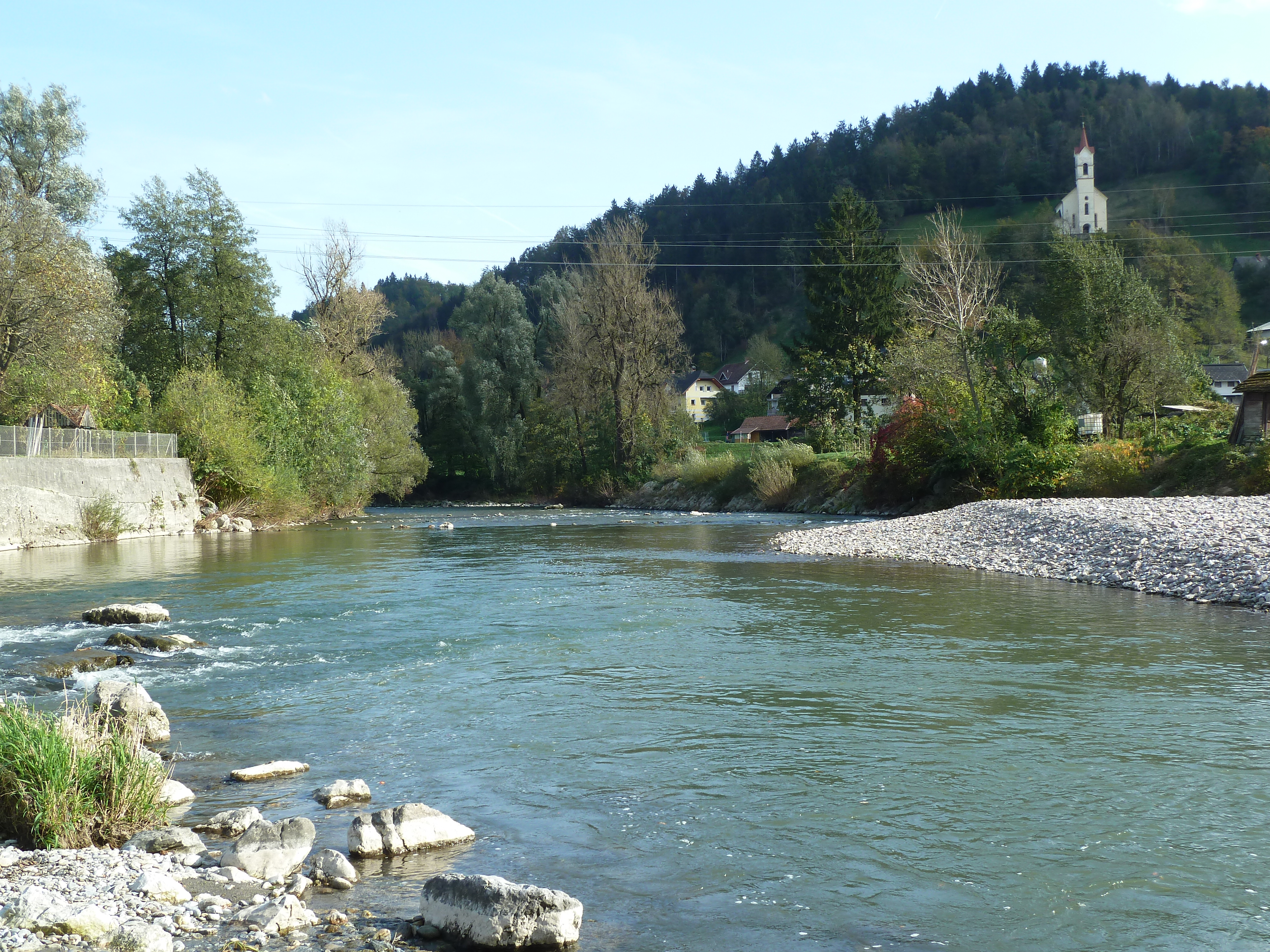 The confluence of Selška Sora and Poljanska Sora in Škofja Loka